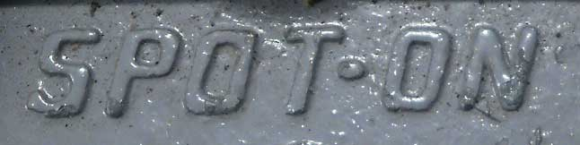 Spot On chassis detail.